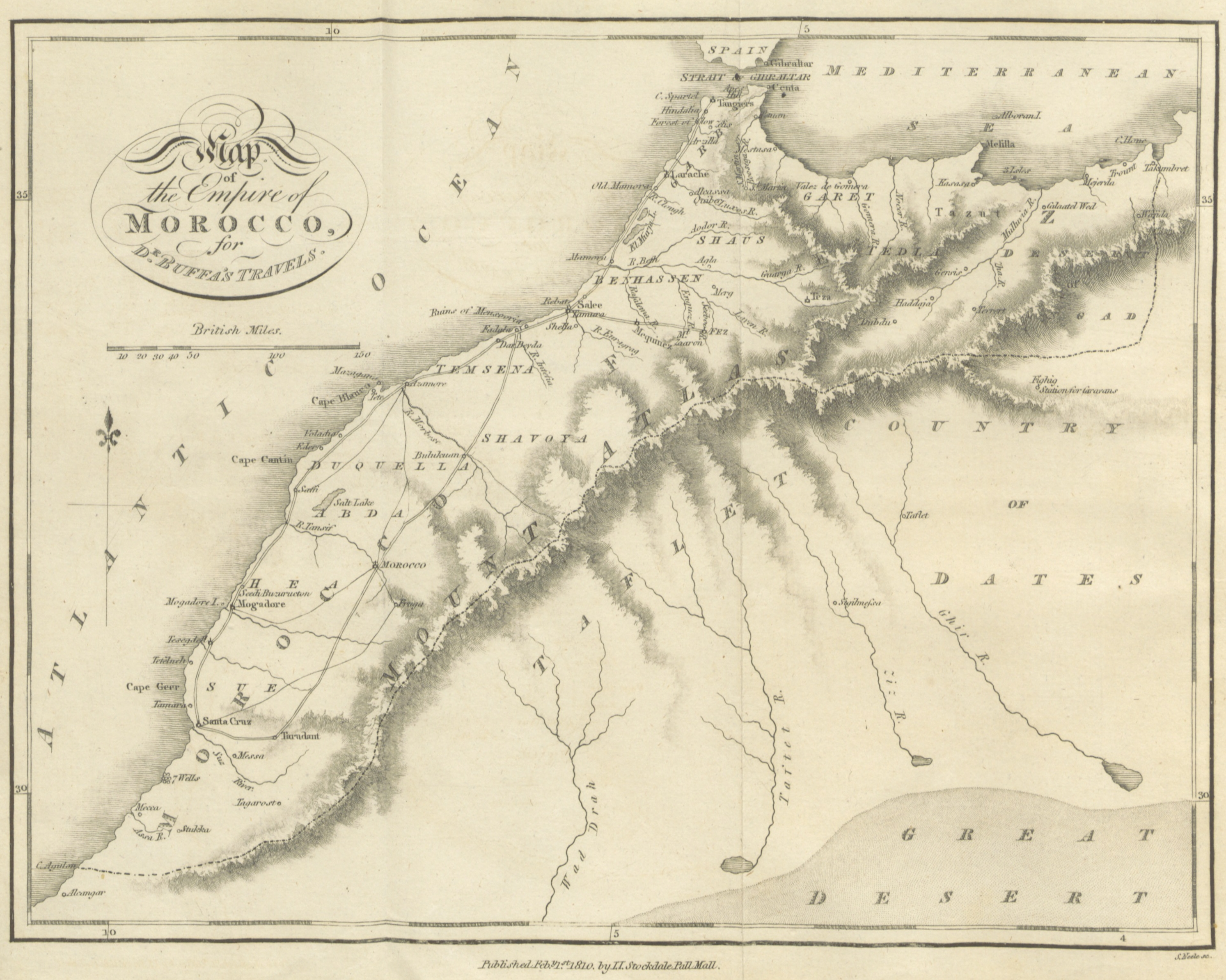 Page 10 of Travels through the Empire of Morocco ... Illustrated with a map.